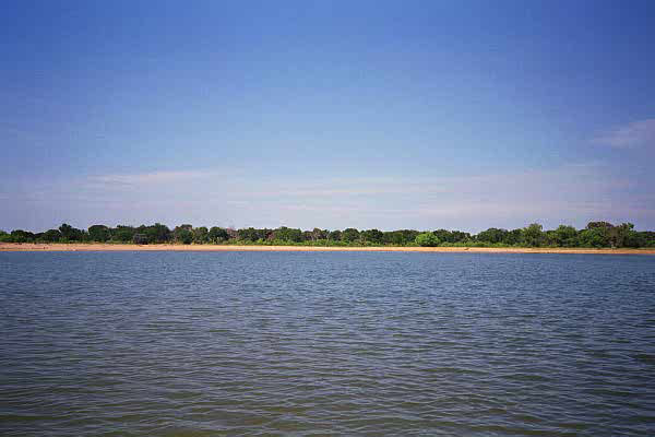 The shoreline of Lake Buchanan, Texas. Photograph 1999 by Kenneth E. Harker of Austin, Texas.